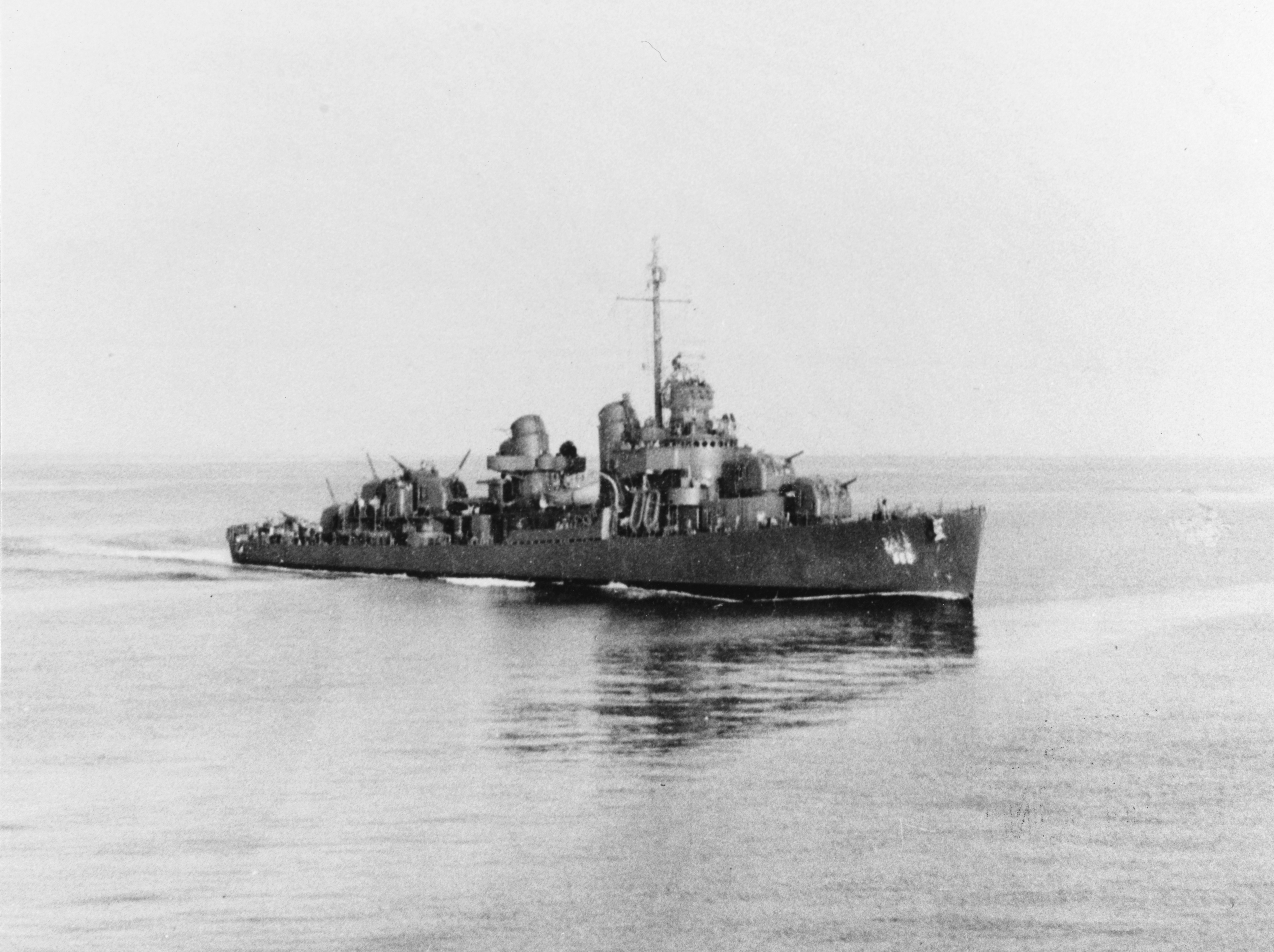 The U.S. Navy destroyer USS De Haven (DD-469) off Savo Island, viewed from USS Fletcher, 30 January 1943, two days before she was lost.